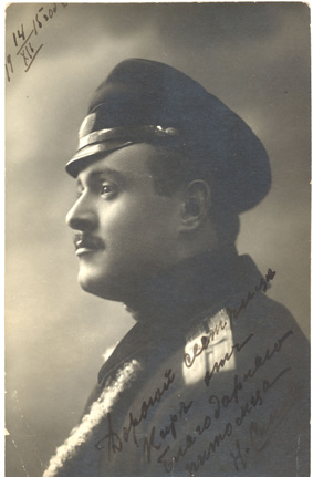 Greek (Battle of Bizani, 1913) and Russian (World War I and Russian Civil War) pilot Nikolay Sakov (1889-1930).